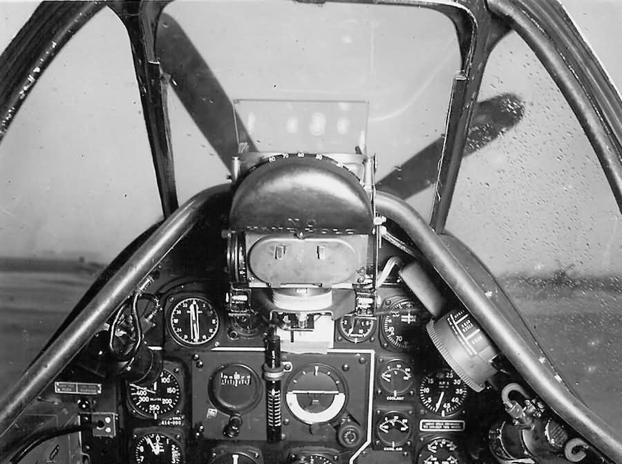 The cockpit interior of North American P-51D Mustang.